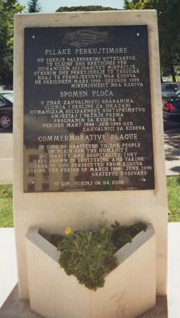 Comemoration of the help from ulcinj to Kosovo refugees